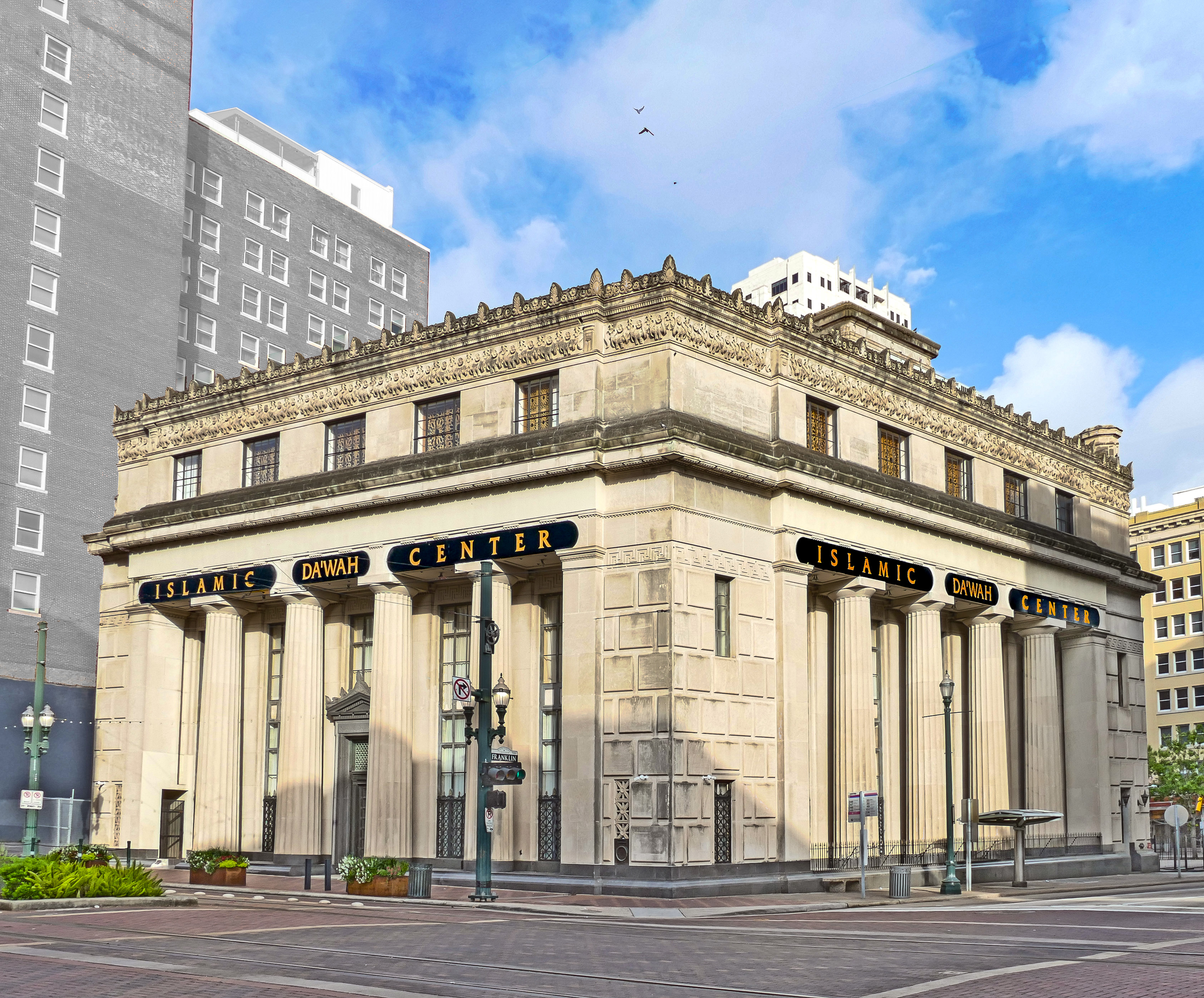 Houston National Bank began as Fox Bank in 1876 and went through several name changes until 1926, when Humble Oil founder Ross S. Sterling bought the bank. Two years after purchasing the bank, Sterling commissioned the firm of his son-in-law, Hedrick and Gottleib, to design the bank’s new building. Hedrick may have been Sterling’s son-in-law, but the firm of Hedrick and Gottleib was the successor to early Texas skyscraper pioneers Saguinet & Staats. This was to be the last of the new banks on Main Street as in 1929 the Depression hit. The interior of this building, now an Islamic center closed to the public, is said to be one of the most elegant bank interiors in Houston. A five-story rotunda, at a height of 56 feet, is supported by eight columns. The floor is a pattern of Roman travertine and Belgian marbles. A marble stairway, in the center of the rotunda, leads to the mezzanine. A bronze fresco surrounds the domed ceiling. The walls are covered with Sienna marble paneling and bronze chandeliers hang throughout.